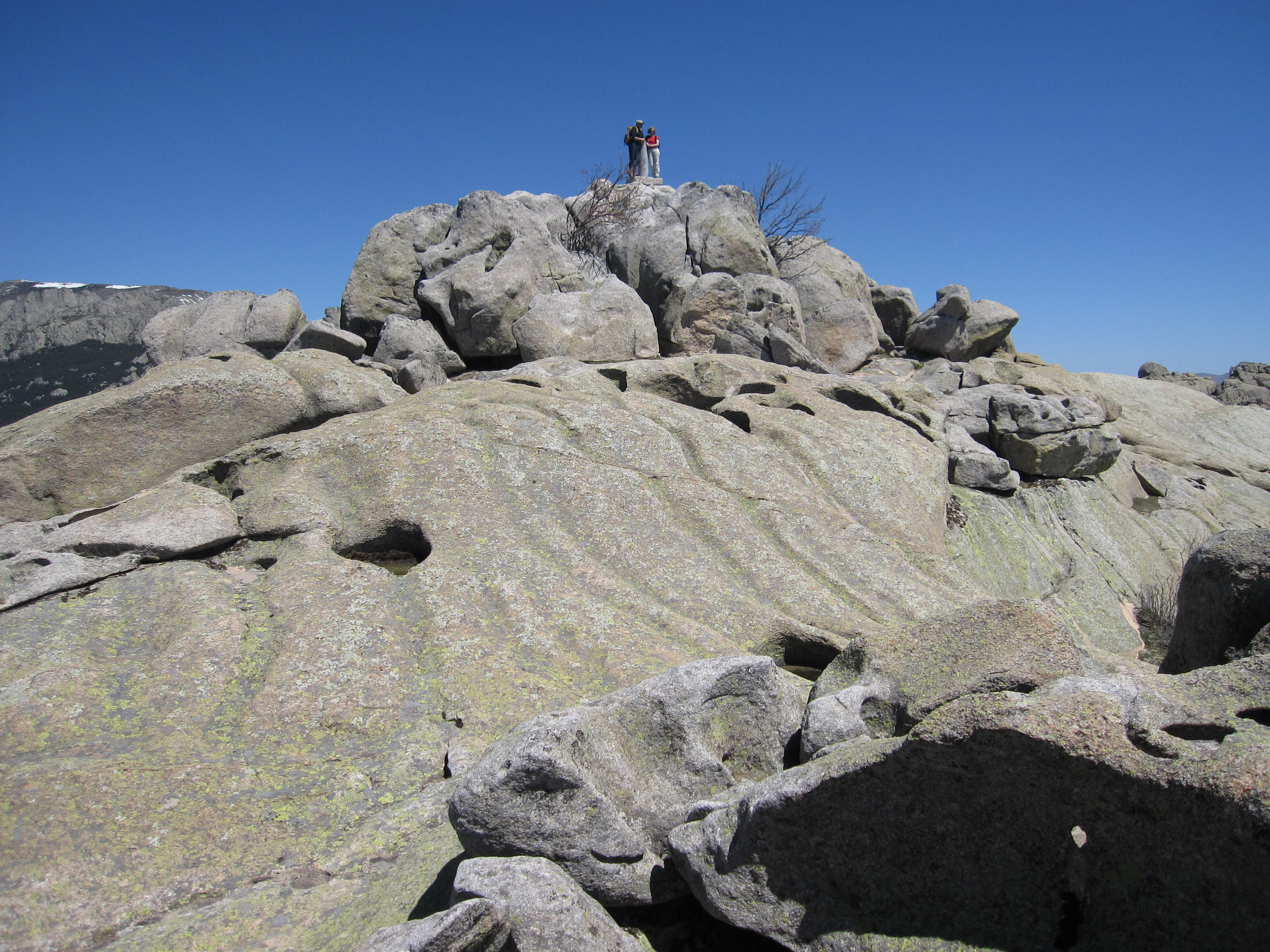 Summit of El Yelmo, La Pedriza (Guadarrama mountain range, central Spain).